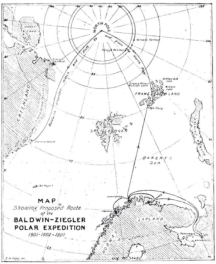 Map showing the proposed Route of the Baldwin Ziegler Polar Expedition 1901-1903.